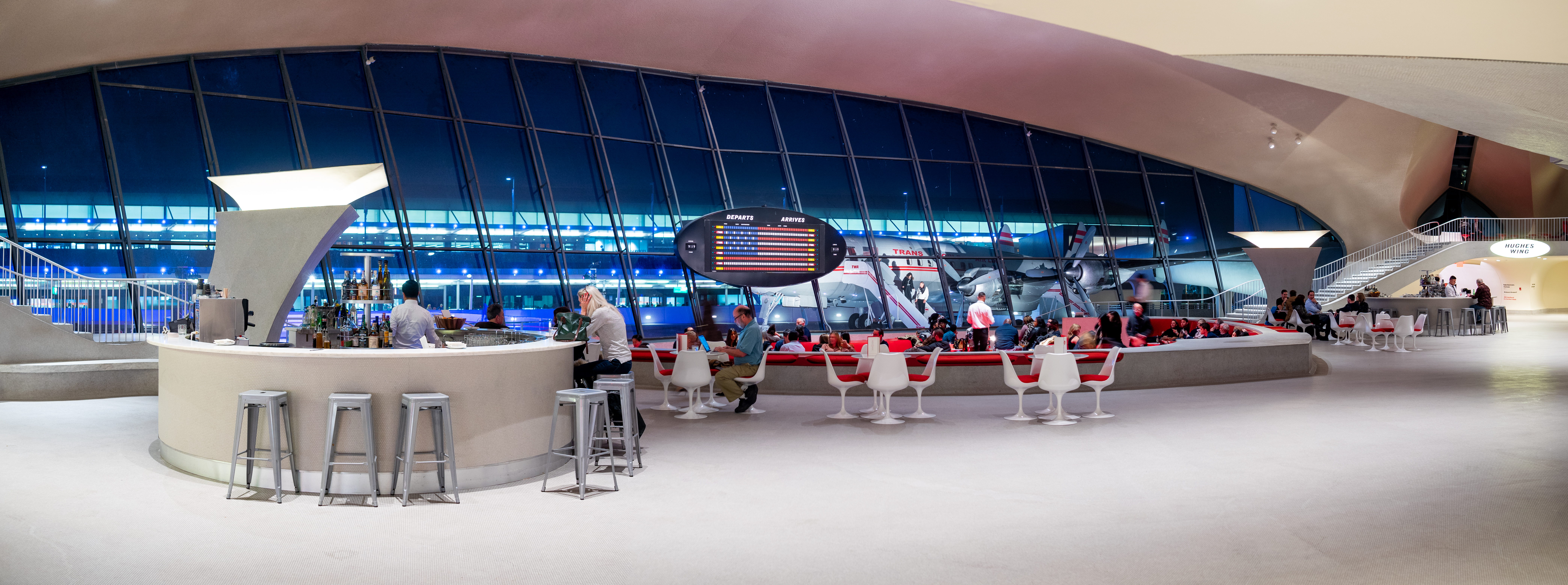 TWA Hotel / Flight Center at John F. Kennedy International Airport, New York. Outside the window is the N8083H Connie Starliner L-1649A, a Lockheed Constellation airplane built in 1958.